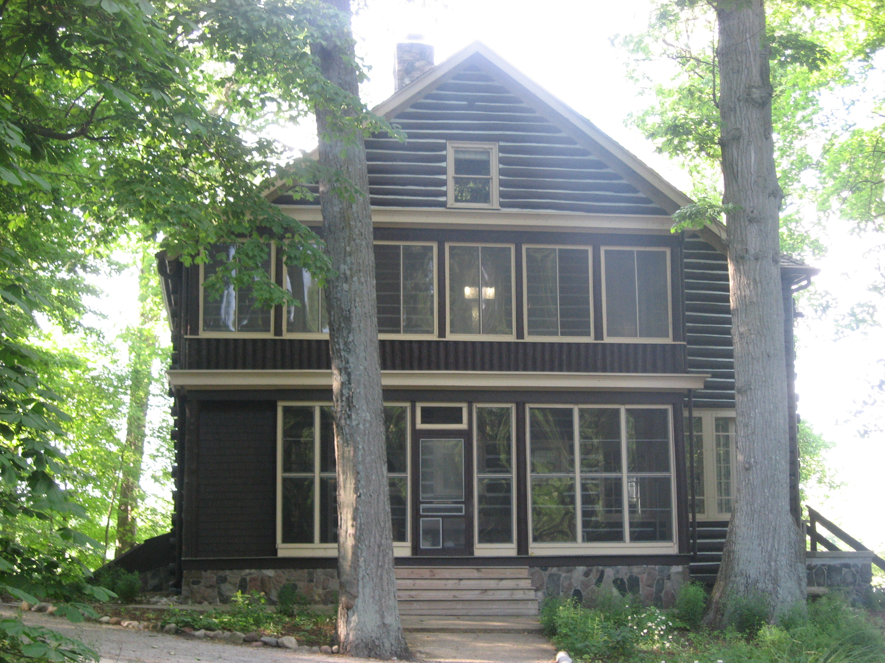 Front of the Gene Stratton Porter Cabin ("Cabin in Wildflower Woods"), located in the Gene Stratton-Porter State Memorial southeast of Rome City in Orange Township, Noble County, Indiana, United States. Built in 1895, it is listed on the National Register of Historic Places.